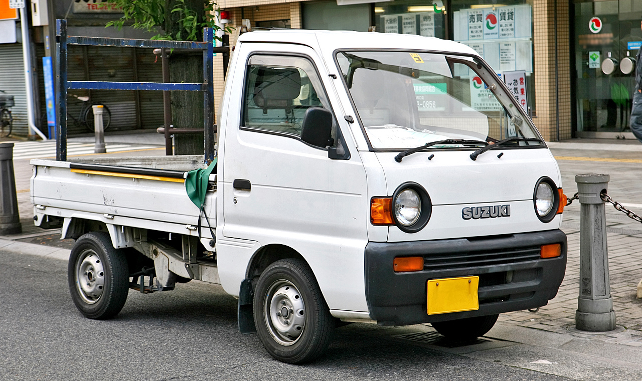 Suzuki Carry Truck ( 10th generation )